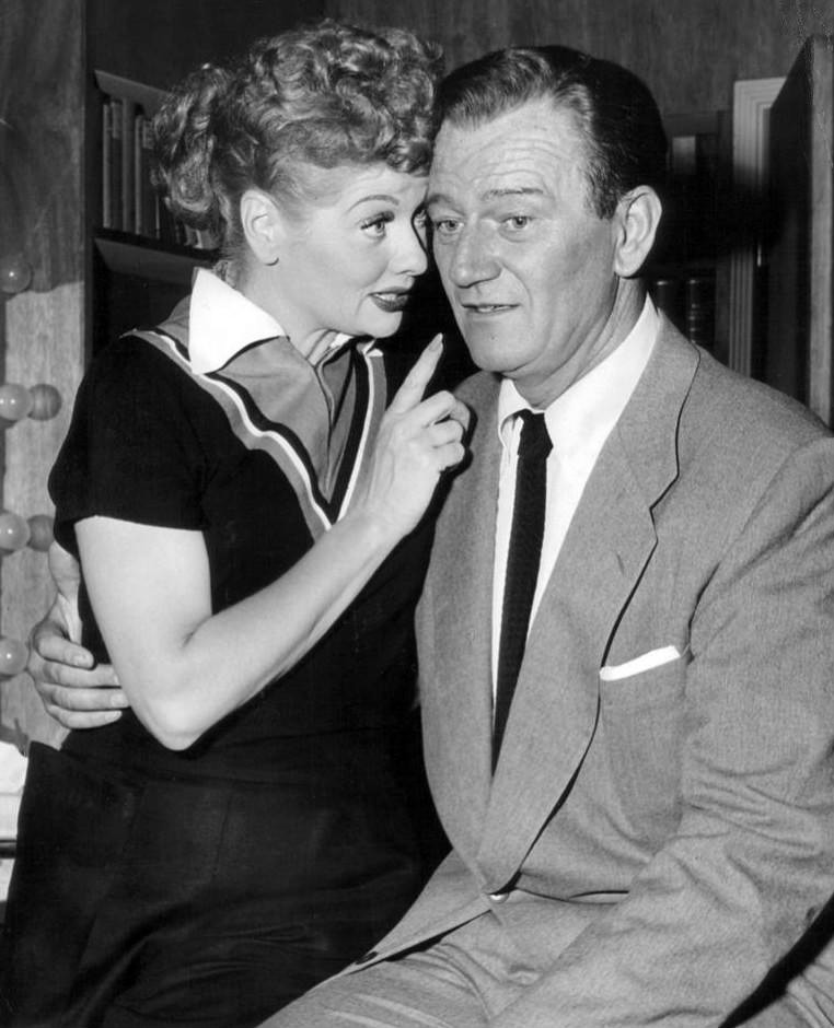 Publicity photo of John Wayne and Lucille Ball from the television program I Love Lucy. In this episode, the Ricardos and Mertzes are visiting Los Angeles and visit Grauman's Chinese Theater, where Lucy decides to take John Wayne's footprints as a souvenir.